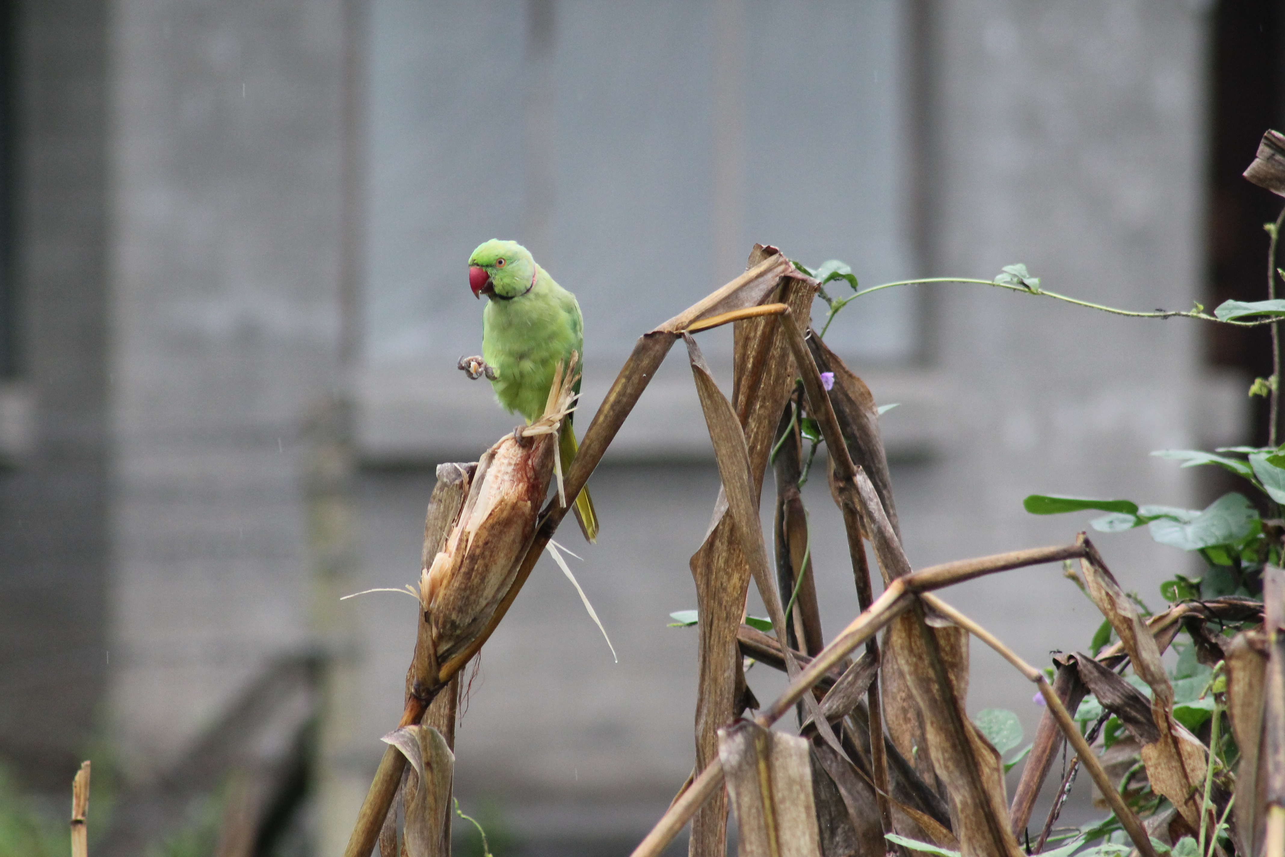 Parrot at farm.